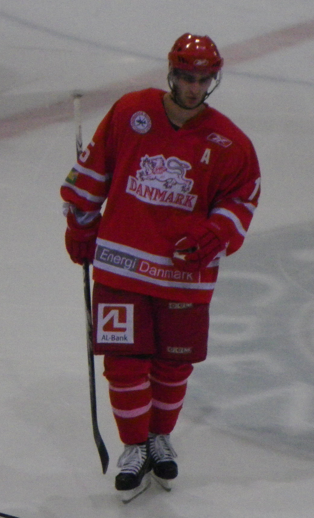 Frans Nielsen, danish ice hockey player with team Denmark. Friendly against team France